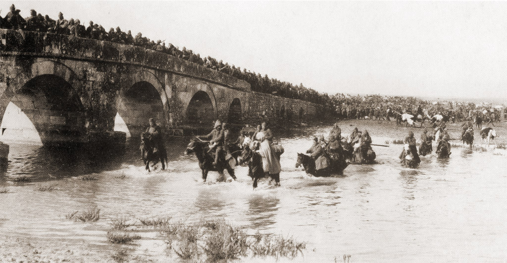 Ottoman troops in retreat from Lule Burgas across the bridge at Karisdiran